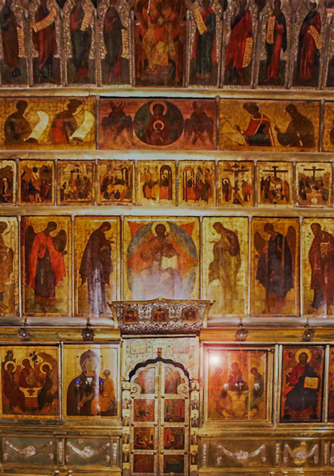 Main iconostasis of Trinity Cathedral in Sergiev Posad